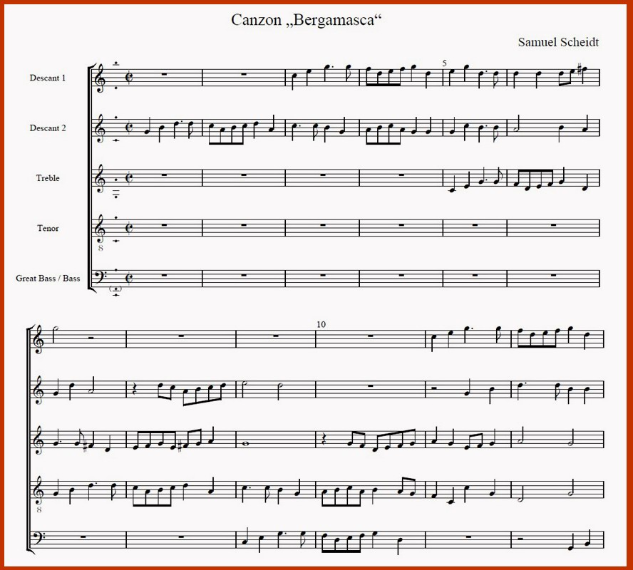 Canzona "Bergamasca" (~ 1660) Samuel Scheidt